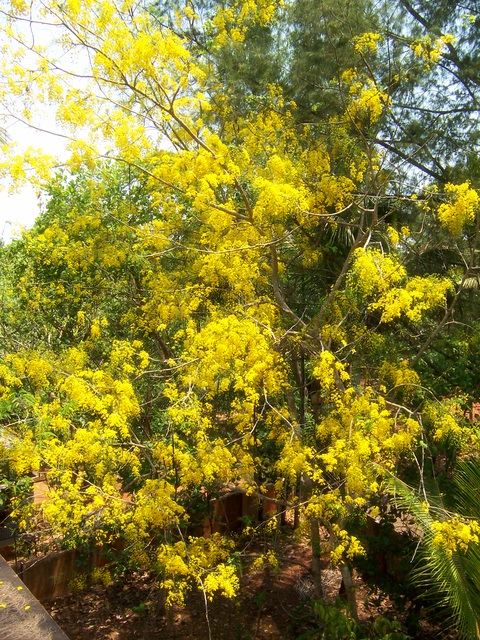 A Konna tree full of Konnappoo (Konna flowers)